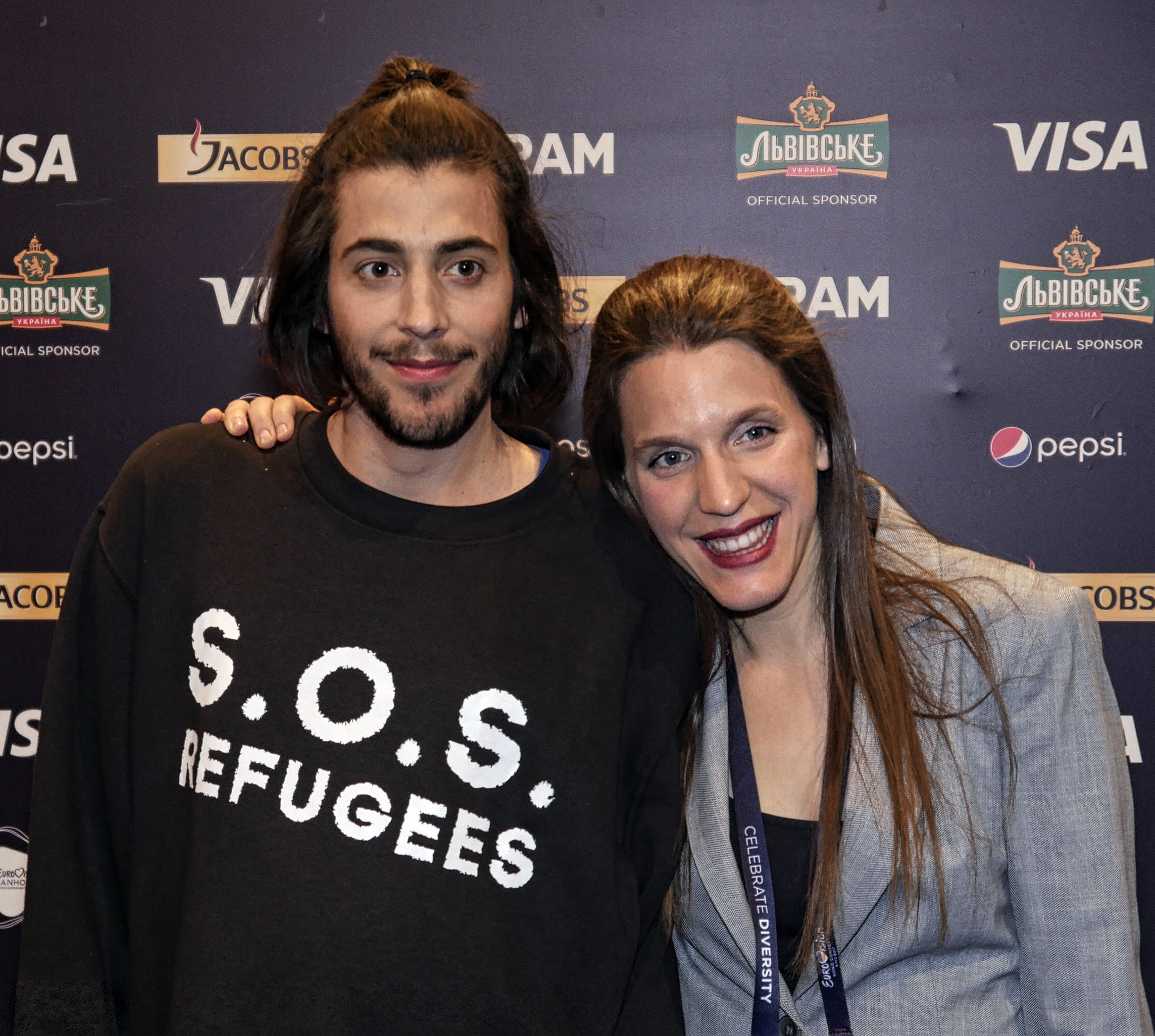 Salvador Sobral and his sister Luísa Sobral, in a cropped jpg version of File:Salvador Sobral und Luisa Sobral 2017-05-09.png